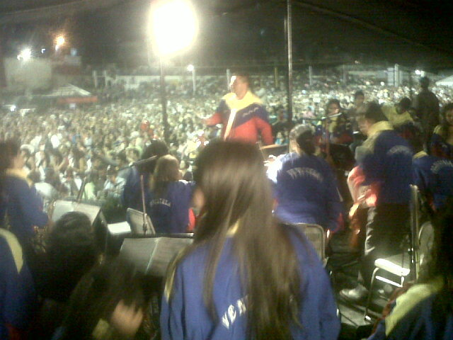 Youth Symphony Orchestra Concert in the 400 years of the Christ